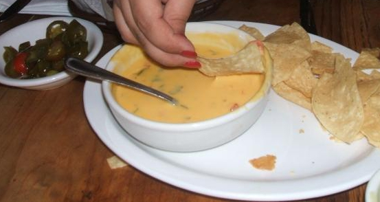 Chili con queso at Ninfa's Tex-Mex restaurant on Navigation street in Houston, Texas